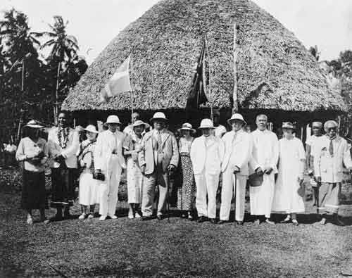 Olaf Frederick Nelson (middle, sixth from left) with his daughters on their return to Samoa from exile in New Zealand, 1933 Gagana Samoa: Olaf Frederick Nelson (tu totonu o le ata, tu-ono mai i le itu tauagavale) ma ona afafine i le taimi na fo'i mai ai mai Niu Sila, ua uma lona fa'aaunu'uaina i Niu Sila.